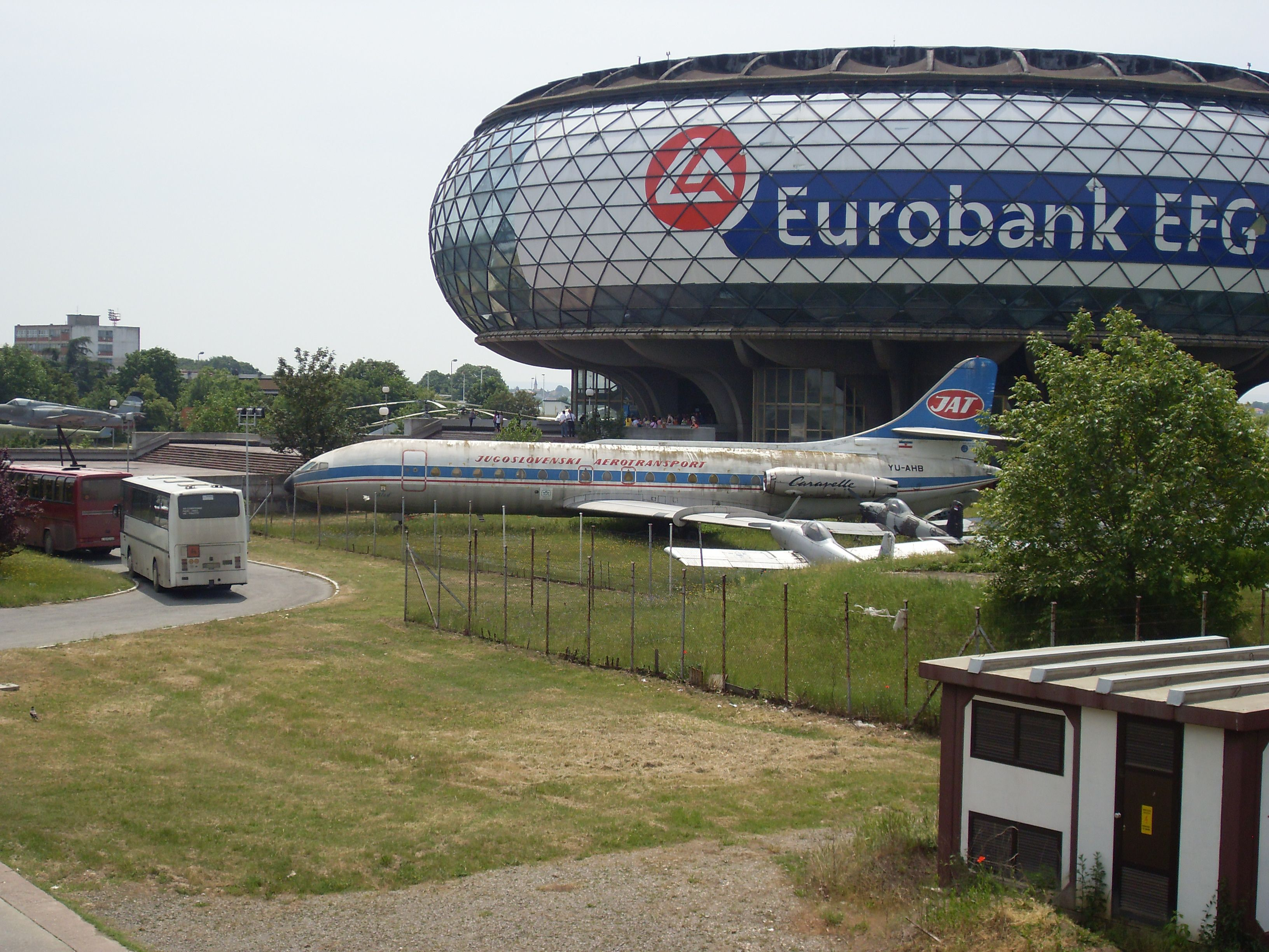 The air museum near the airport of Beograd with a Caravelle in front of it. Eurobank EFG is the sponsor of the Museum